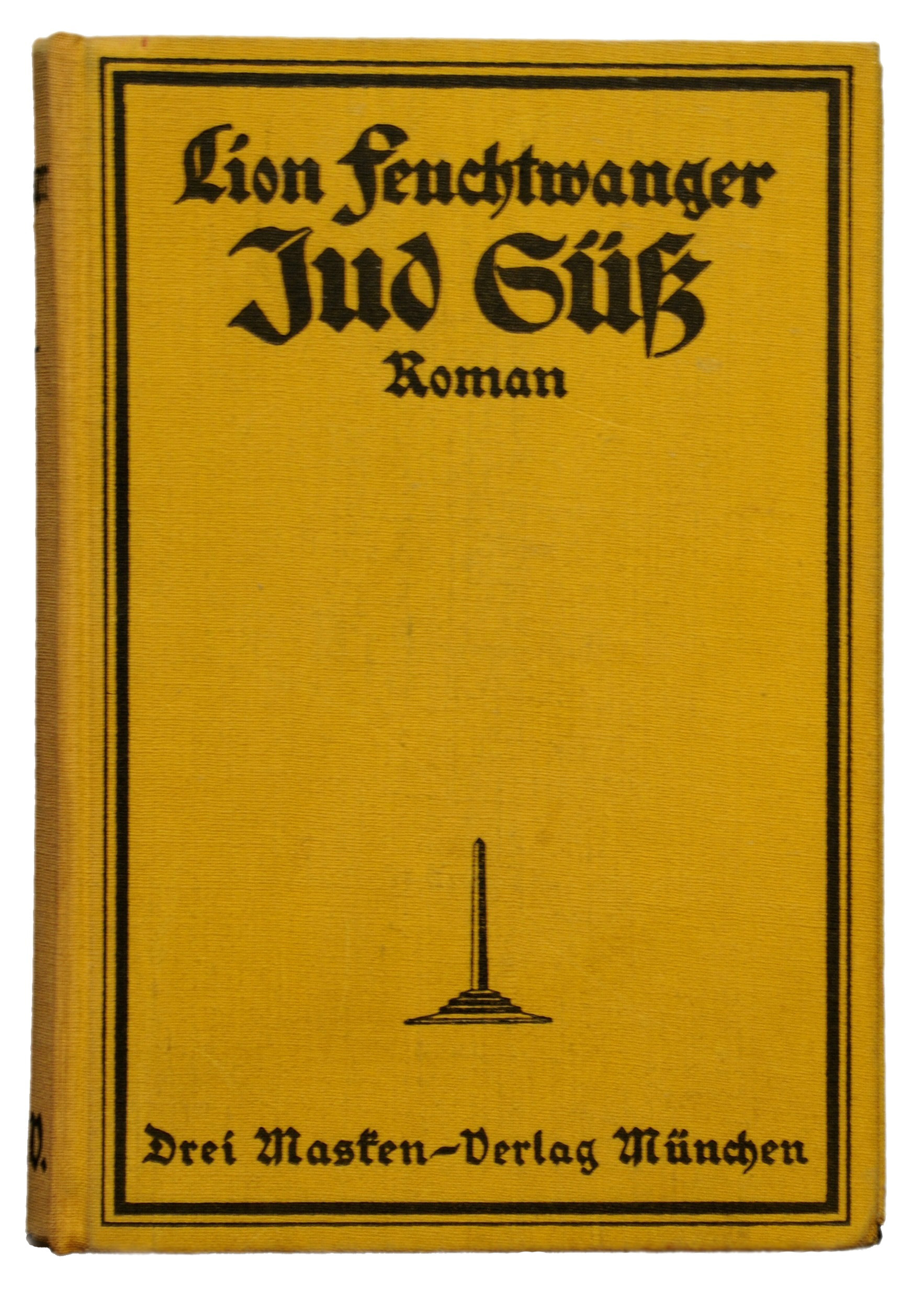 Front cover of Lion Feuchtwanger's novel Jud Süß Munich: Drei Masken, 1925, 611 pages.